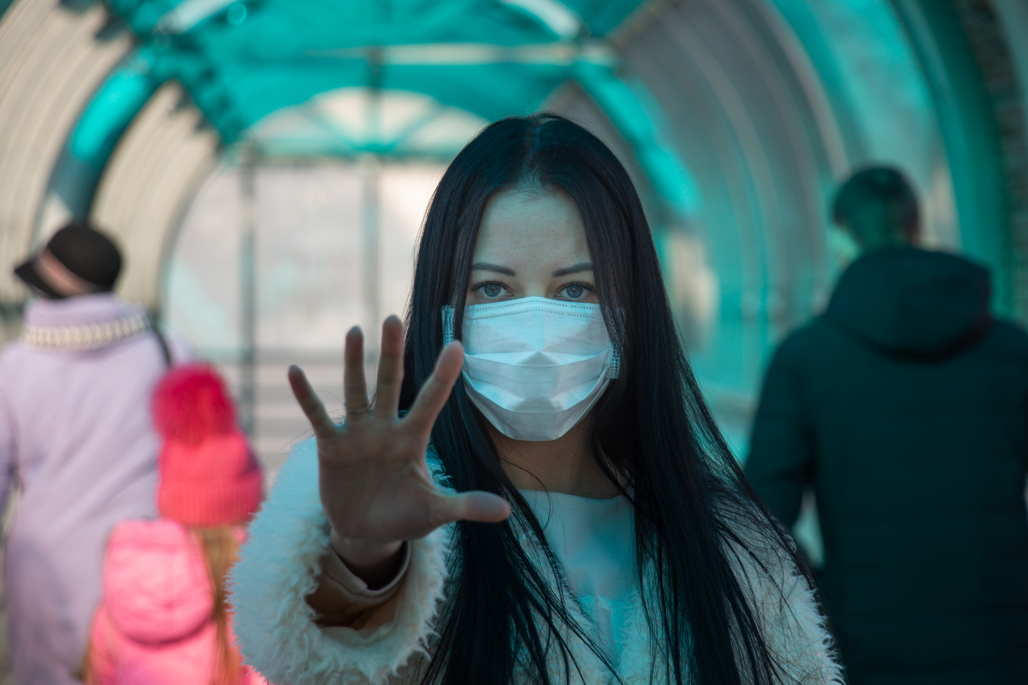 Coronavirus 2019–20 COVID-19 Girl in mask on the street. Stop pandemic and panic